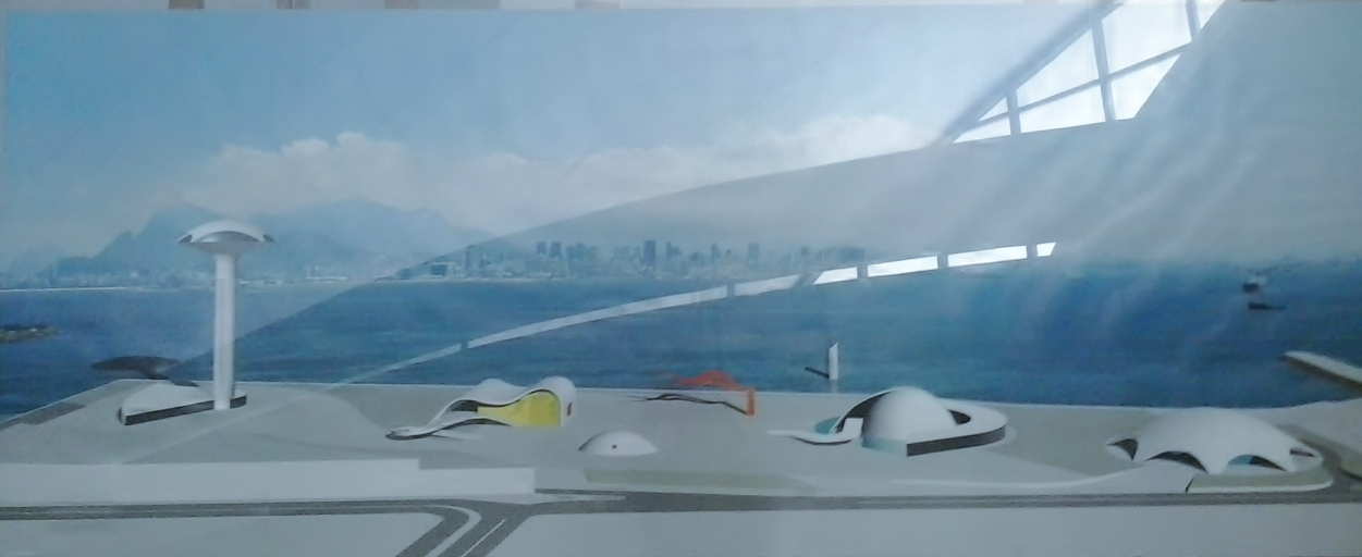 Praça Popular do Caminho Niemeyer, quando concluída.